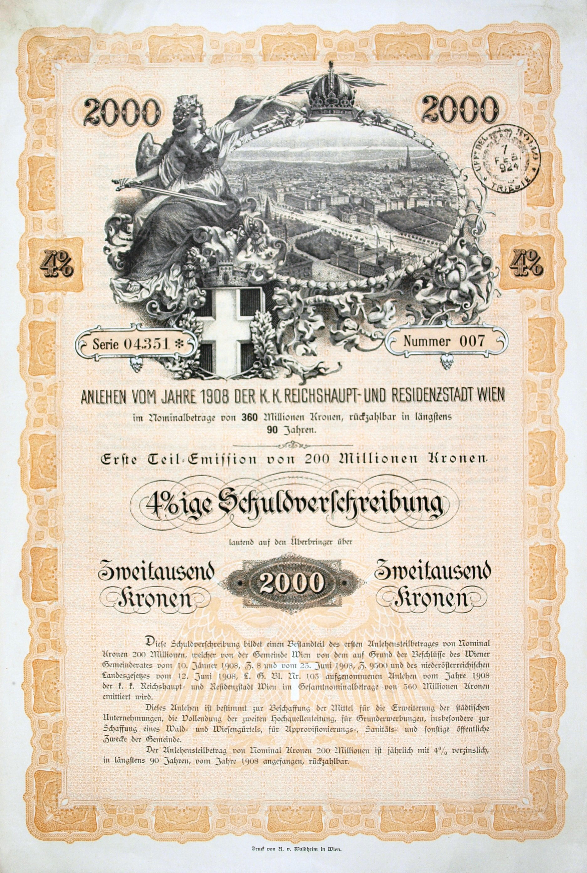 Bond of the city of Vienne, issued 23. June 1908